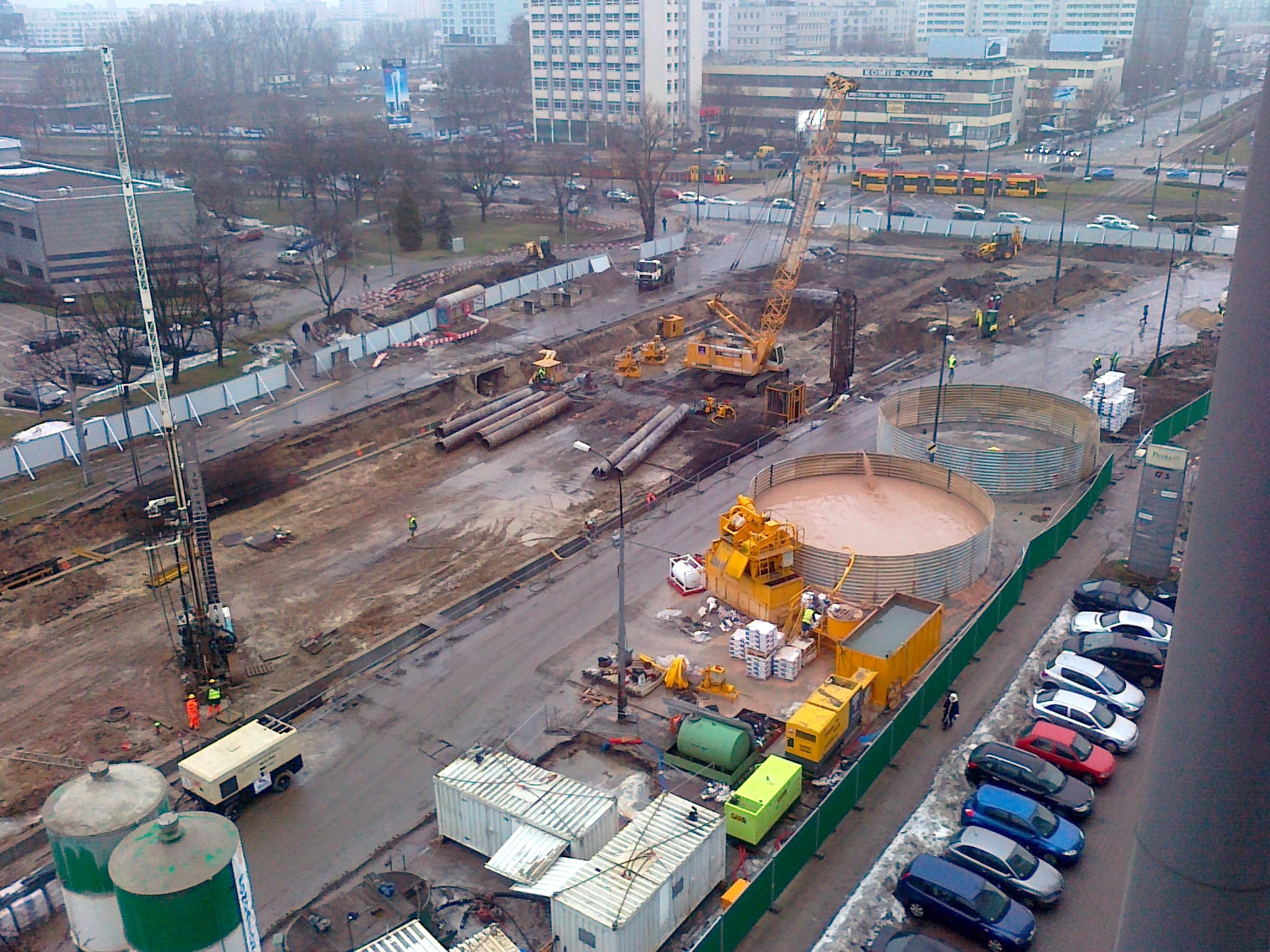 Construction works at the Rondo Daszynskiego station of 2nd line of Warsaw underground.